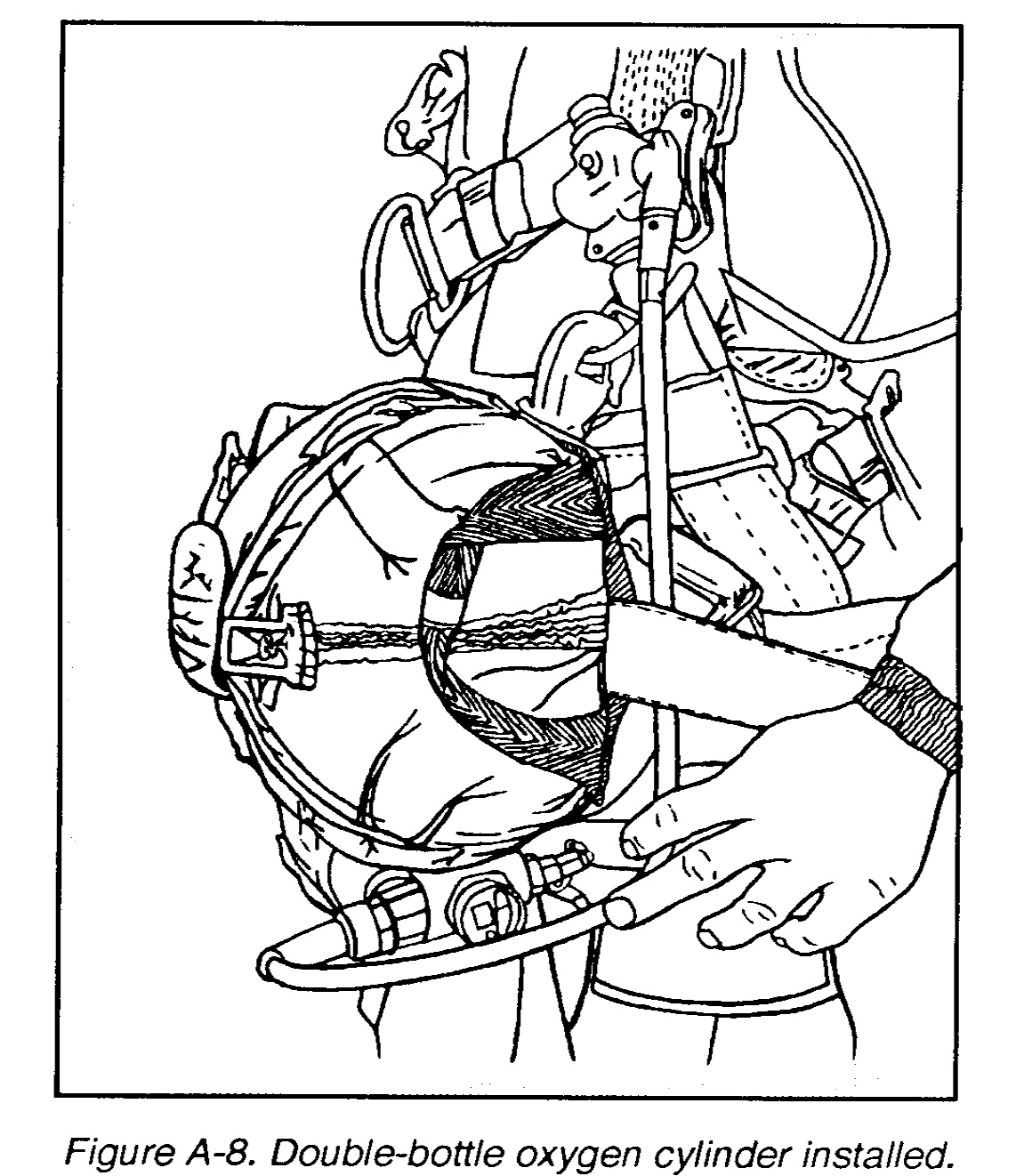 Reserveschirm und Sauerstoffversorgung des Freifallsystems MC-3. Bild aus Field Manual 31-19 von 1977